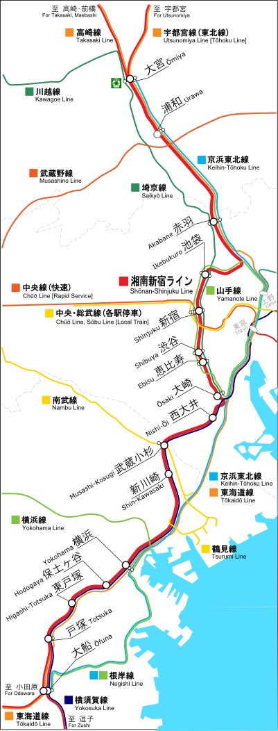 Map of JR Shonan Shinjuku Line